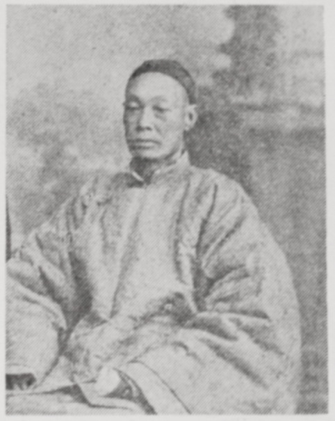 Hsu San Geng（1826- 1890） Portrait about ACE1888 Chinese calligrapher and seal engraver